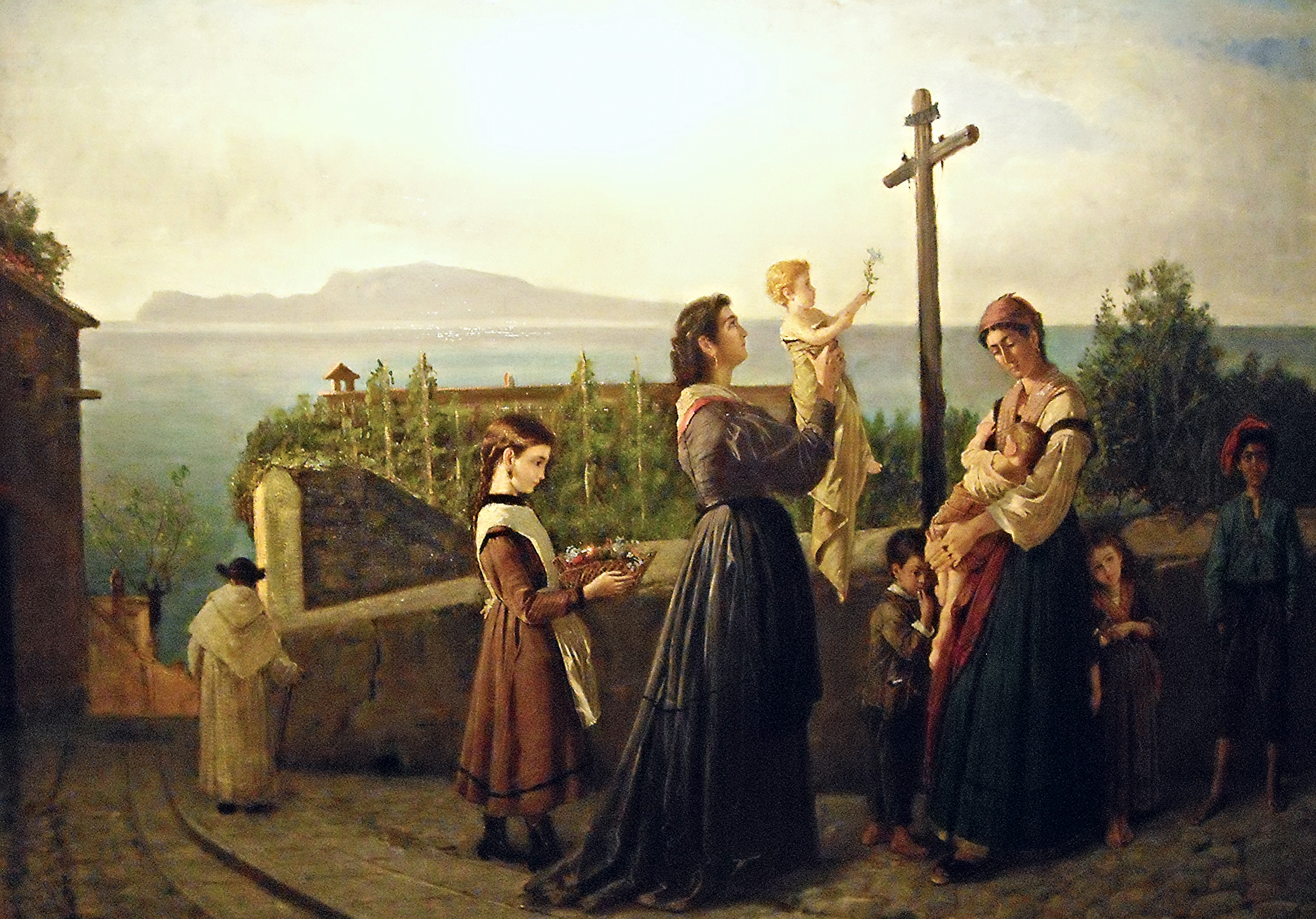 A Cross at Vomero (1869) by Francesco Saverio Altamura (Foggia 1822-Naples 1897)